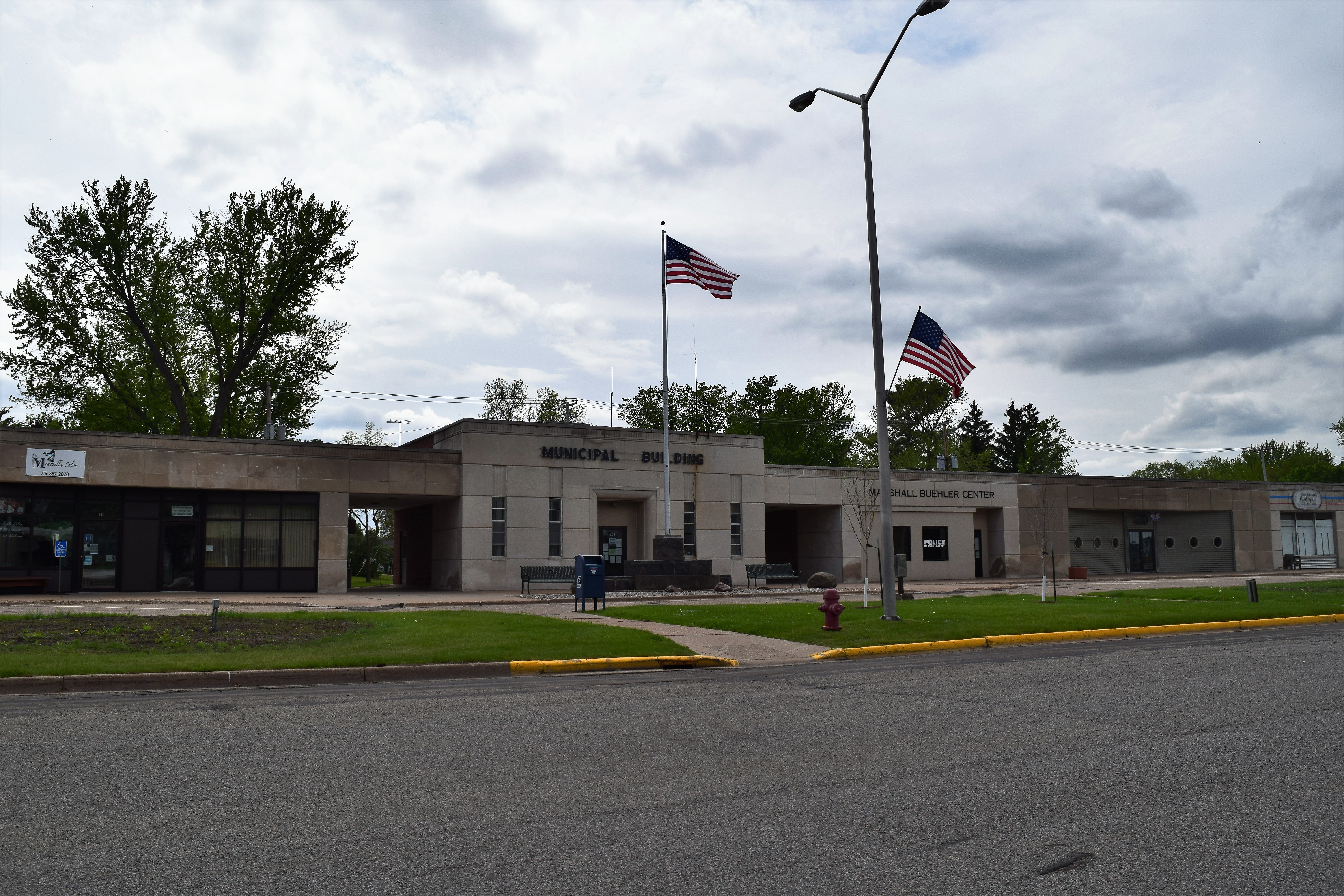 The municipal building in Port Edwards, Wisconsin.